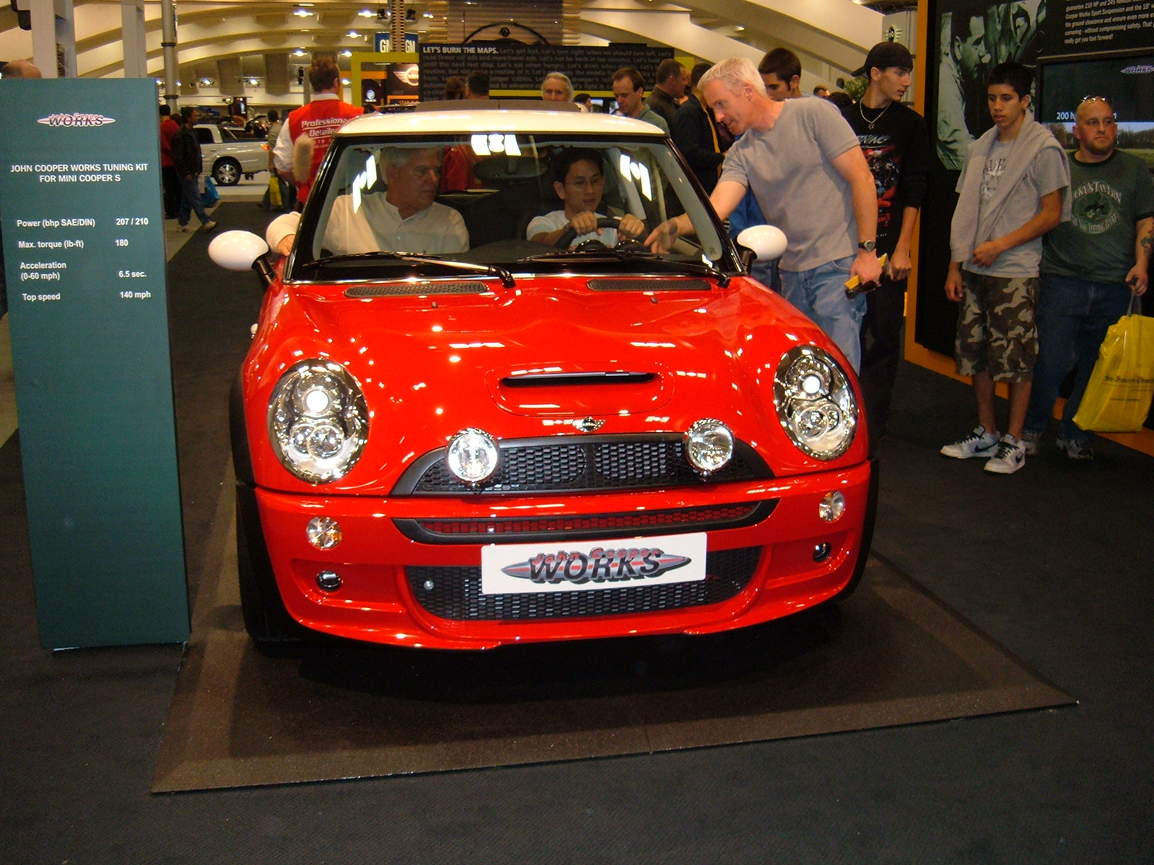 A first generation Mini Cooper S (model year unknown) customized by John Cooper Works at the 2004 San Francisco International Auto Show.